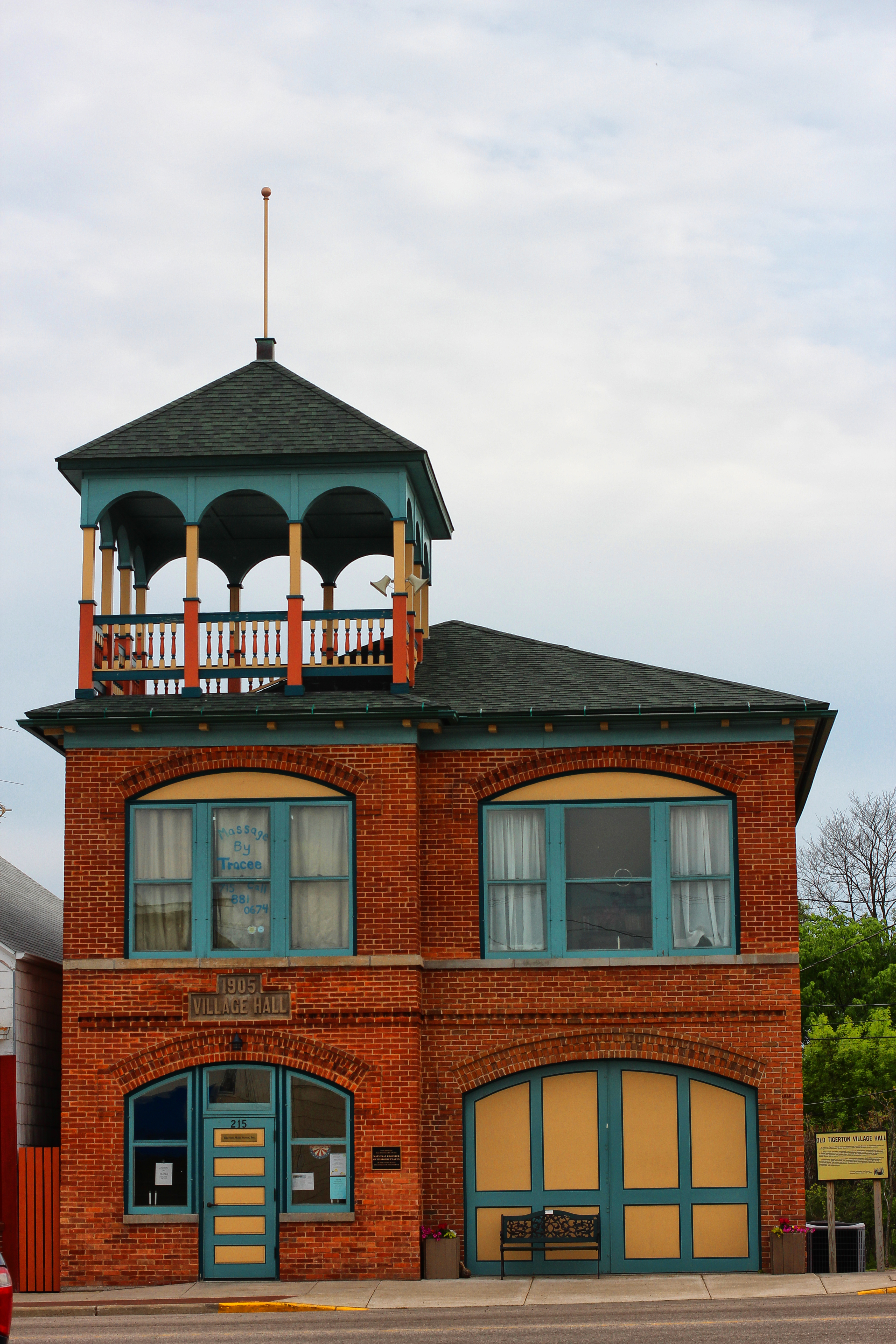 Tigerton Village Hall and Engine House, 215 Cedar St. Tigerton